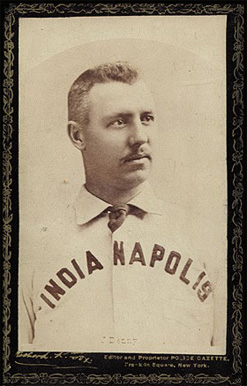 1889 Police Gazette Cabinets baseball card of Jerry Denny